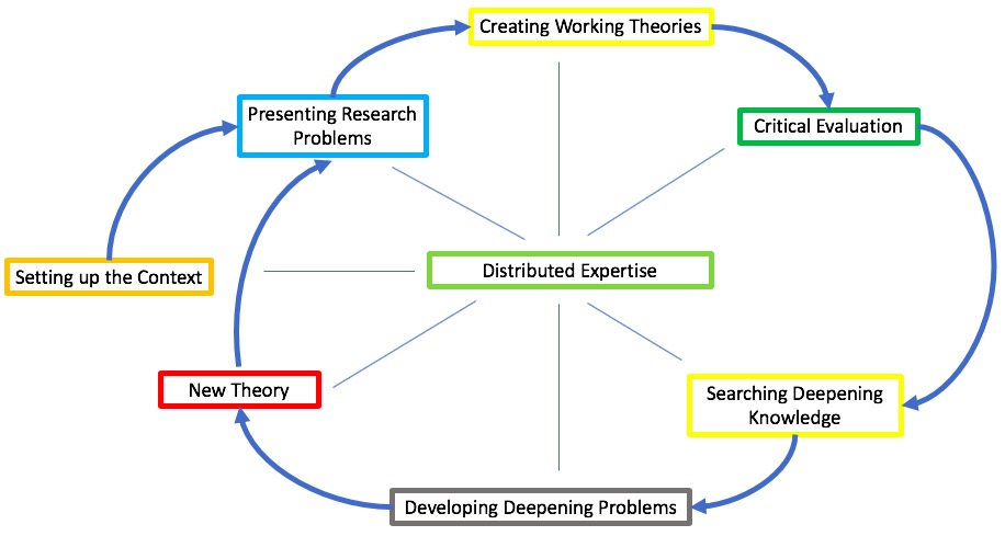 Visualization of the progressive inquiry process.